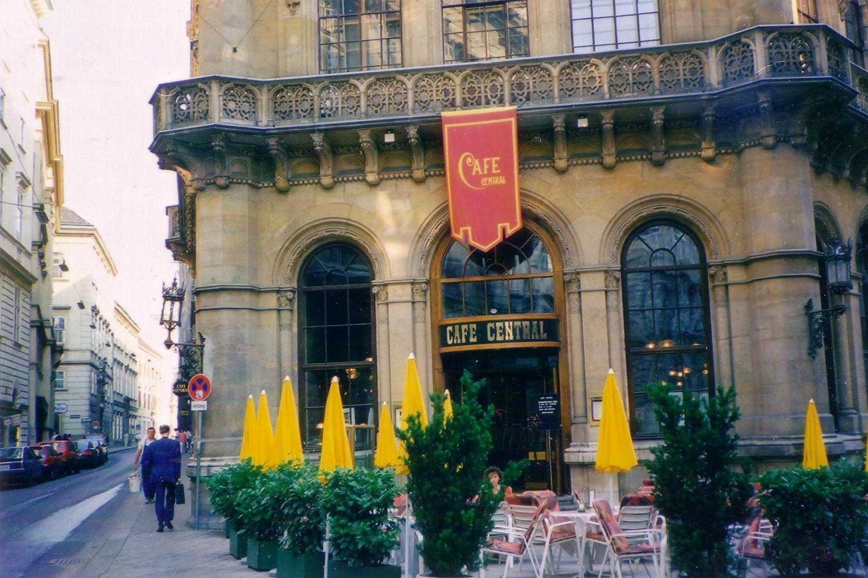 Cafe Central in Vienna